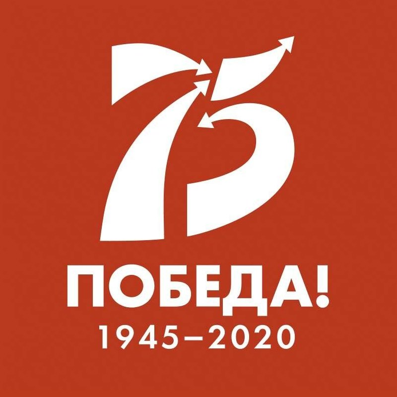 Moscow Victory Day 75th anniversary logo